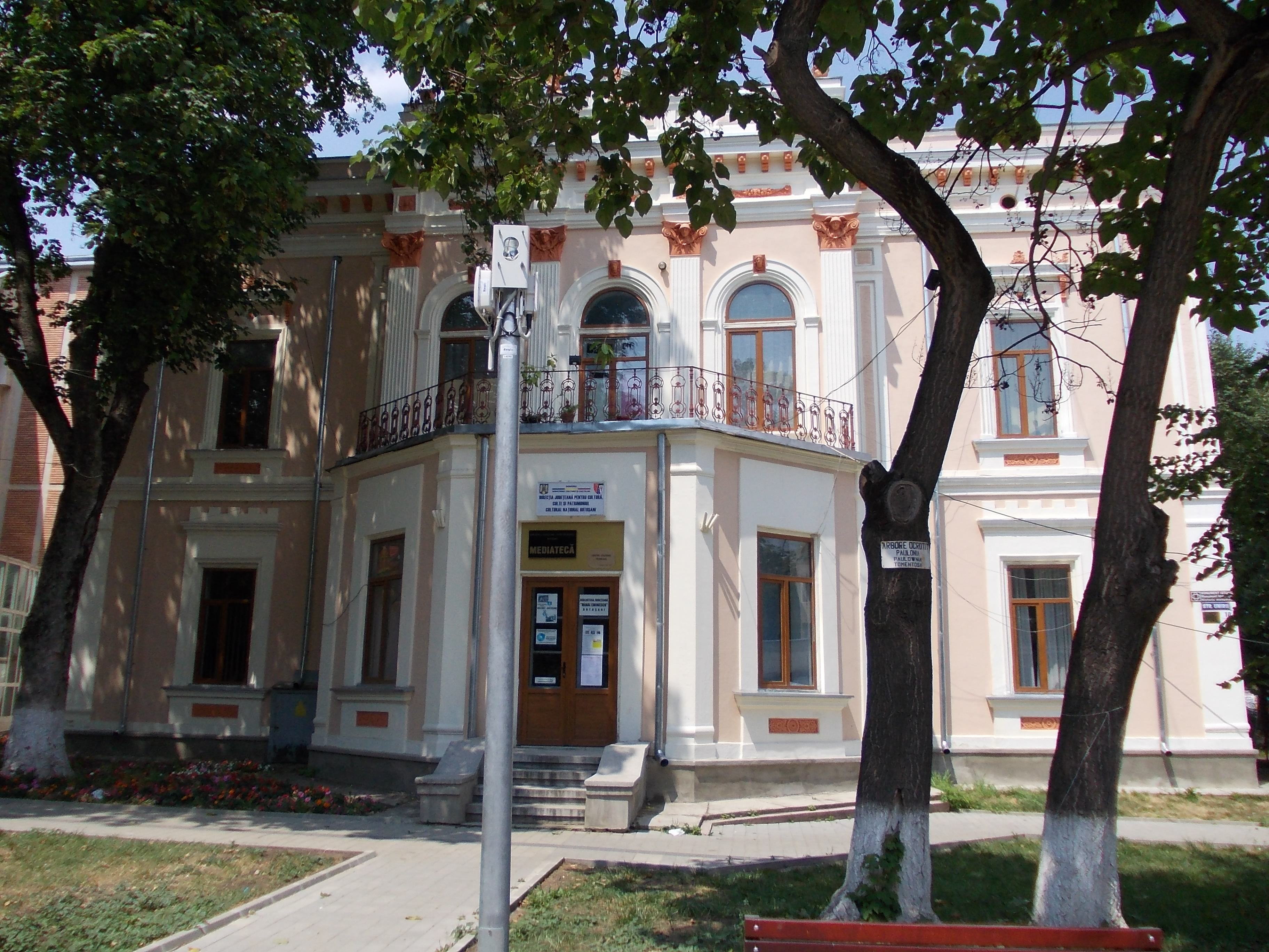 Direcția Județeană de Cultură Botoşani